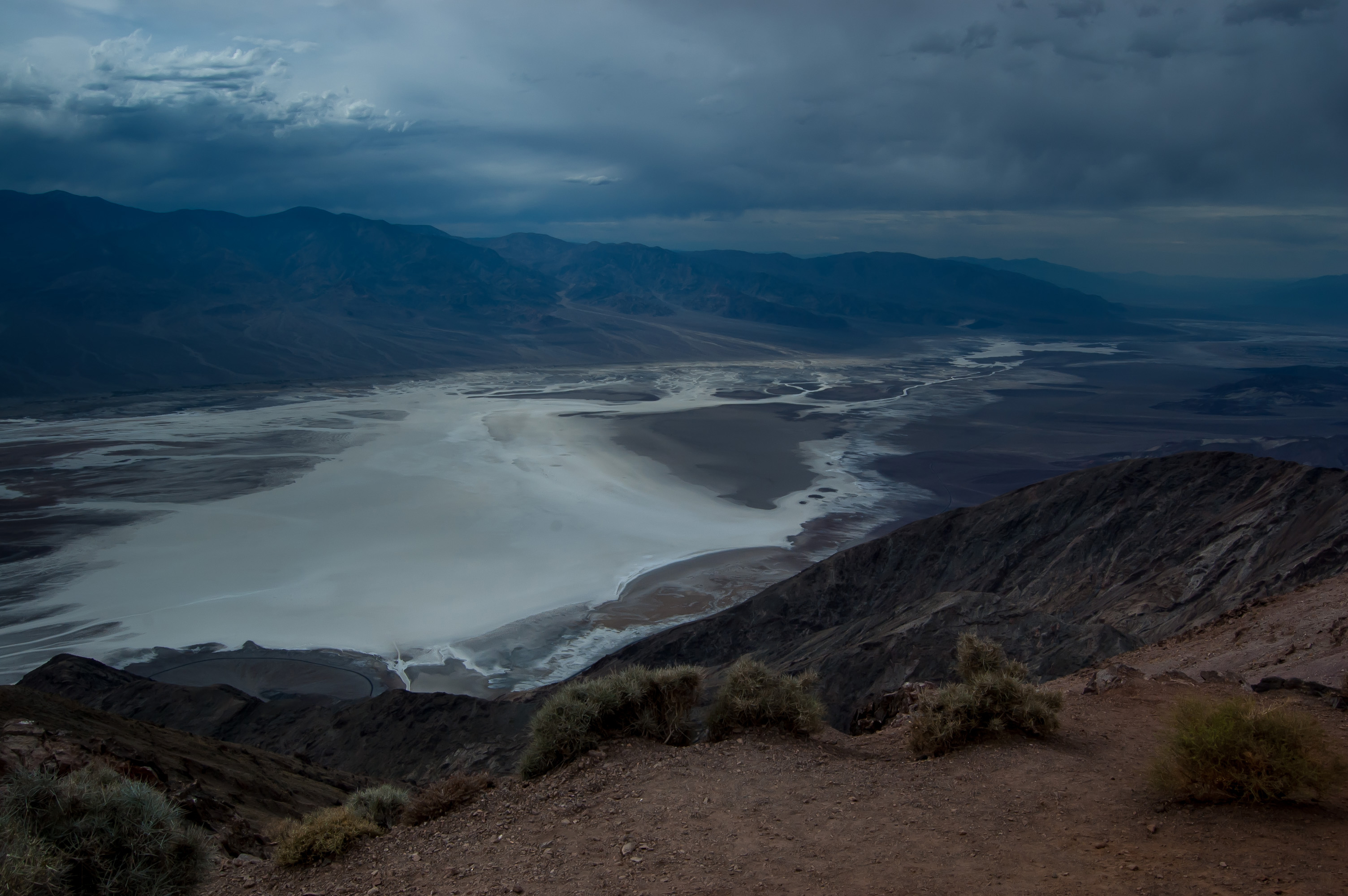 Photo by